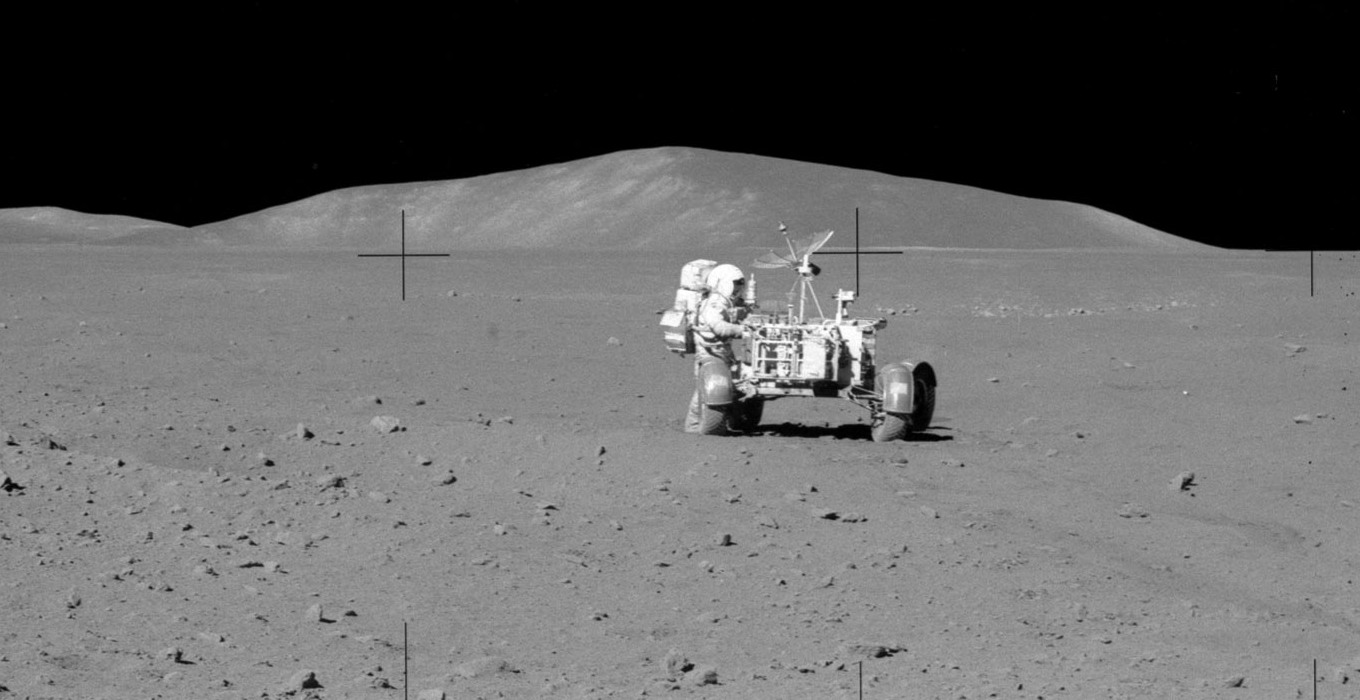 Bennett Hill on the horizon, with astronaut Jim Irwin at the Lunar Roving Vehicle (rover) in the foreground.